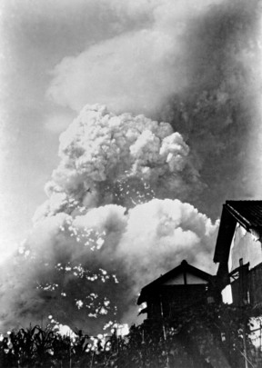 A-Bomb Terror An ominous mushroom cloud rose thousands of feet into the air blotting out the sun and showering deadly ash and radioactive debris on what remained of the town and people of Hiroshima, Japan. Atomic cloud bursting over Hiroshima, 2 minutes after the explosion, at 8:17AM. 06 August 1945 Hiroshima, Japan